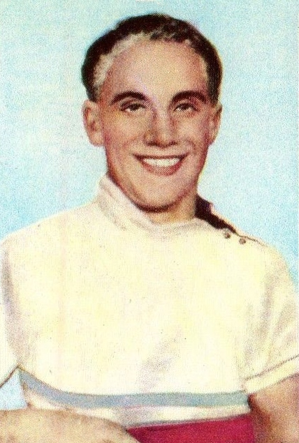 Figurina CAMPIONI dello SPORT 1967/68-n.293- SCHERENS - CICLISMO Depicted person: Jef Scherens – track cyclist